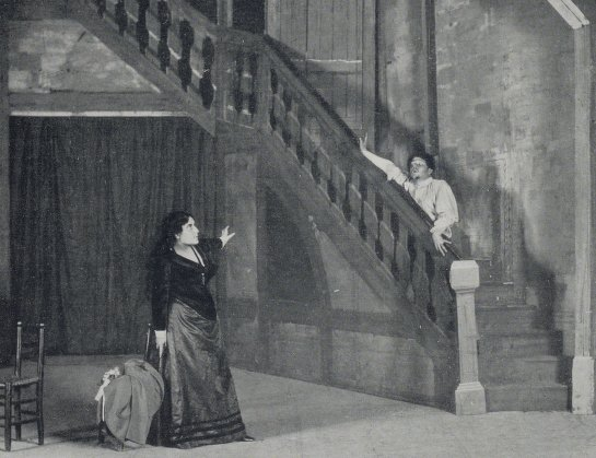 Picture of Anfós Daudet's play L'Arlésienne.